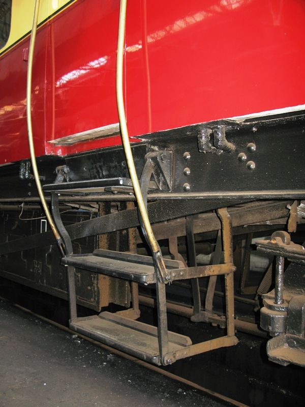 Retractable steps on Great Western Railway diagram A38 autocoach W231, preserved at the Didcot Railway Centre, England. This allowed passenegrs to join or alight at small stations with lower than usual platforms (in the United Kingdom station platforms ar normally about 2 feet 6 inches above rail level which means that steps are not normally required).